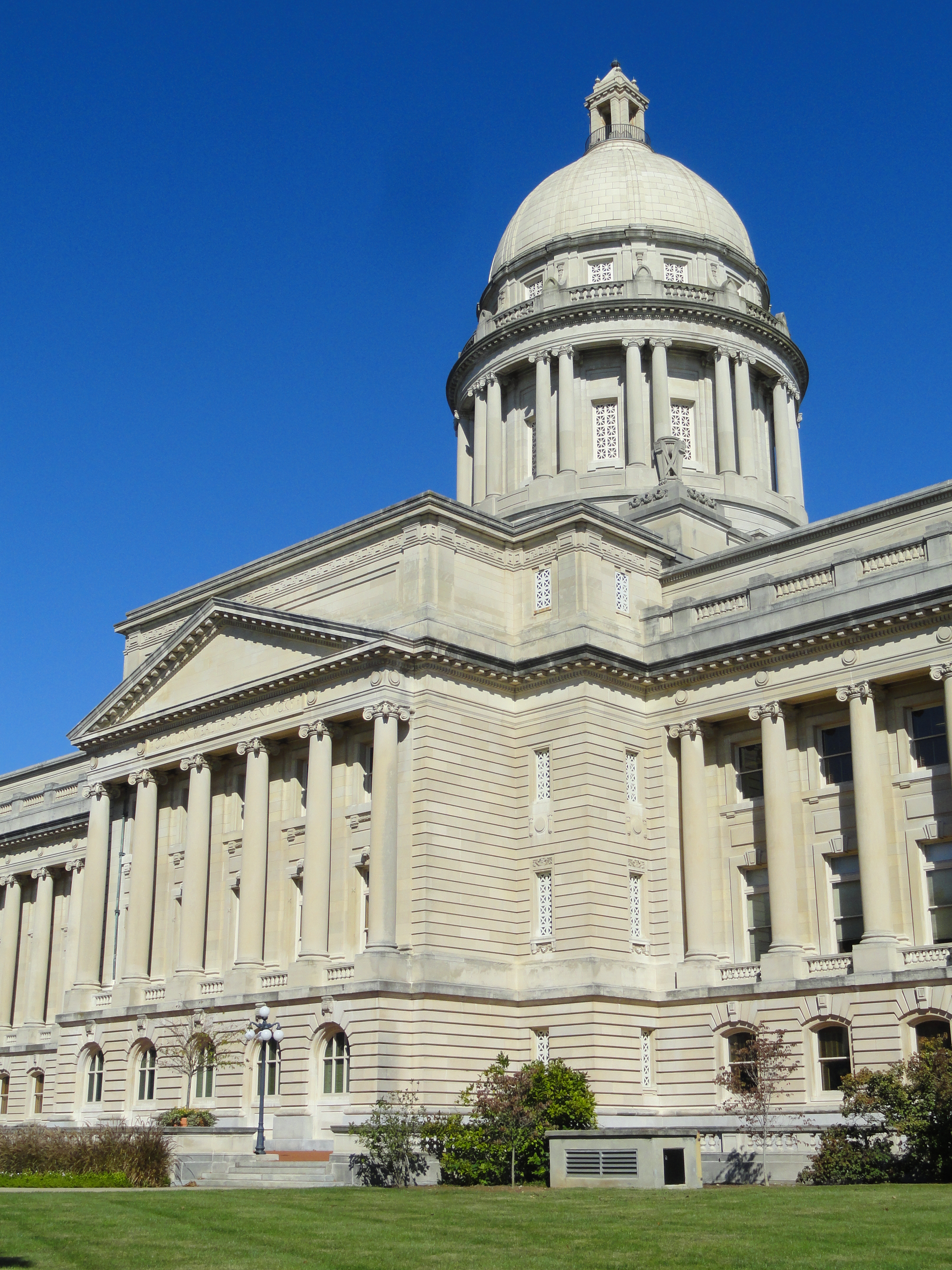 Kentucky State Capitol, Frankfort, Kentucky, USA.